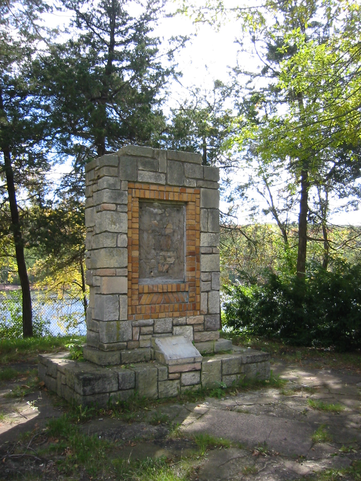 A vandalized historic marker at the St. Croix Boom Site just north of Stillwater, Minnesota. The text of the marker once read, "Center of log and lumbering activities in this region for over half a century prior to 1914. Here millions of logs from the upper St. Croix and tributaries were halted, sorted, and rafted, later to be sawed into lumber and timber products. More logs were handled here than at any similar place in this section. 1940." (Text from the book Minnesota History Along the Highways: A Guide to Historic Markers and Sites, Minnesota Historical Society, 2003.)